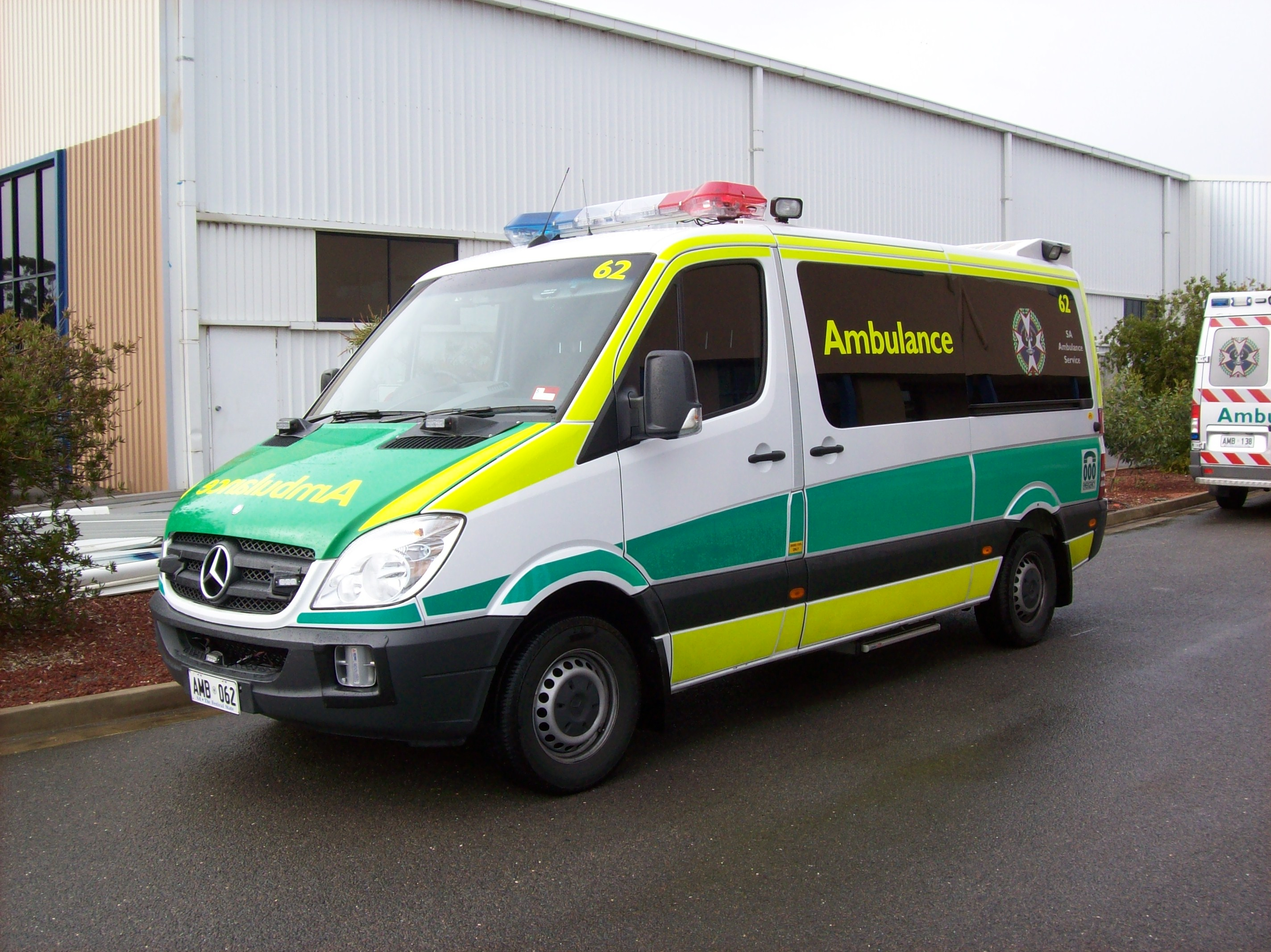 A Non-Emergency Transport Ambulance owned by South Australian Ambulance Service